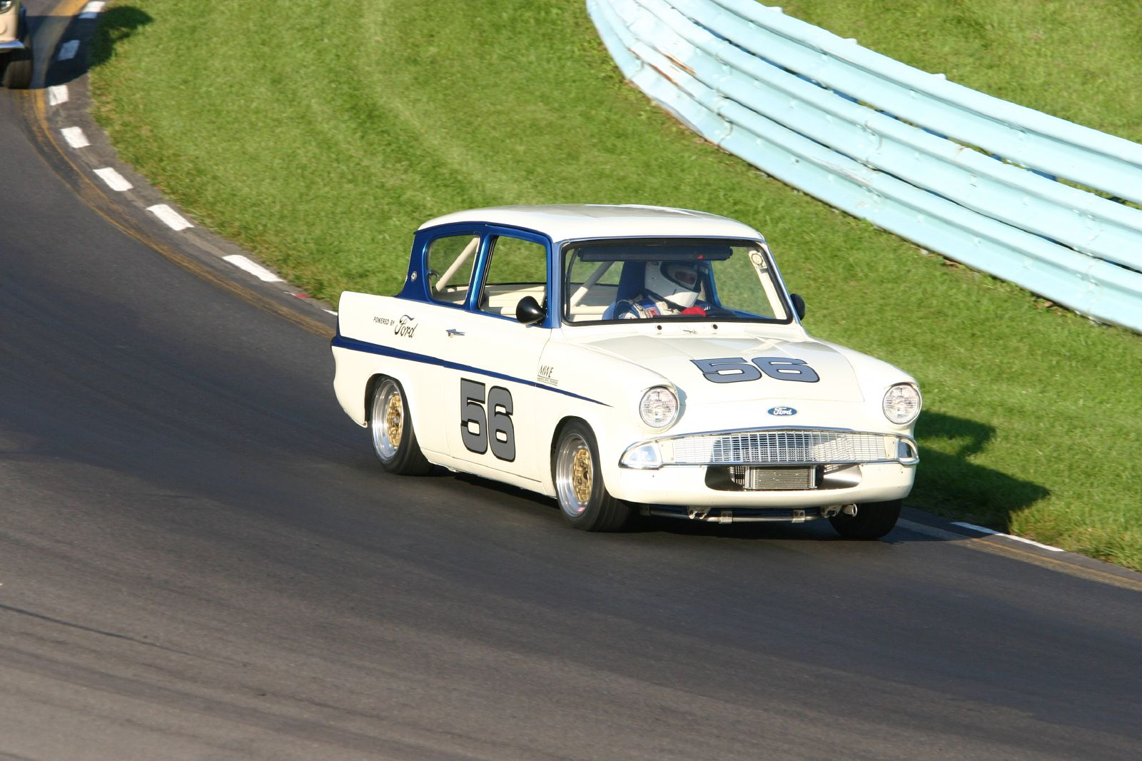 56 - 1966 Ford Anglia Super (1300cc) Ross Bremer Atlantic Beach, FL